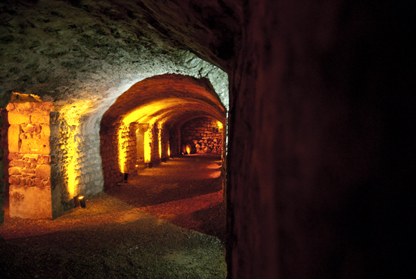 Horreum in Narbonne